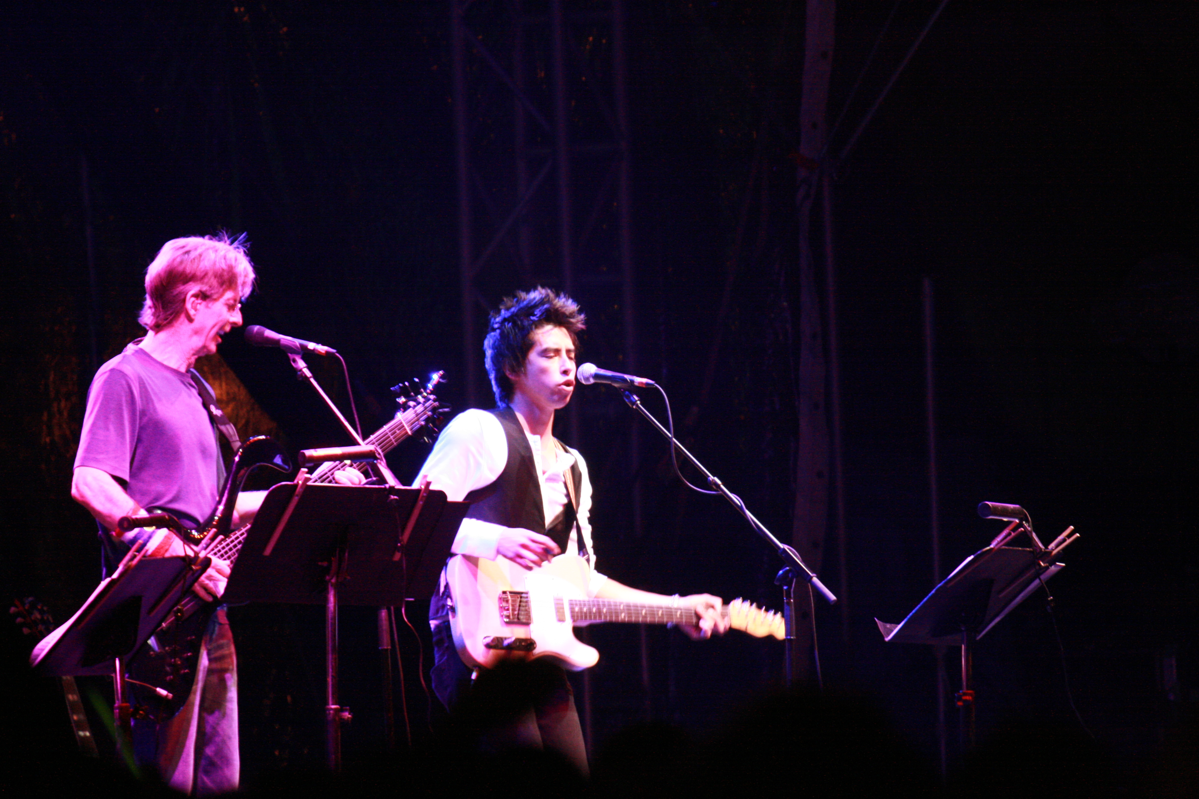 Phil Lesh & Jackie Greene